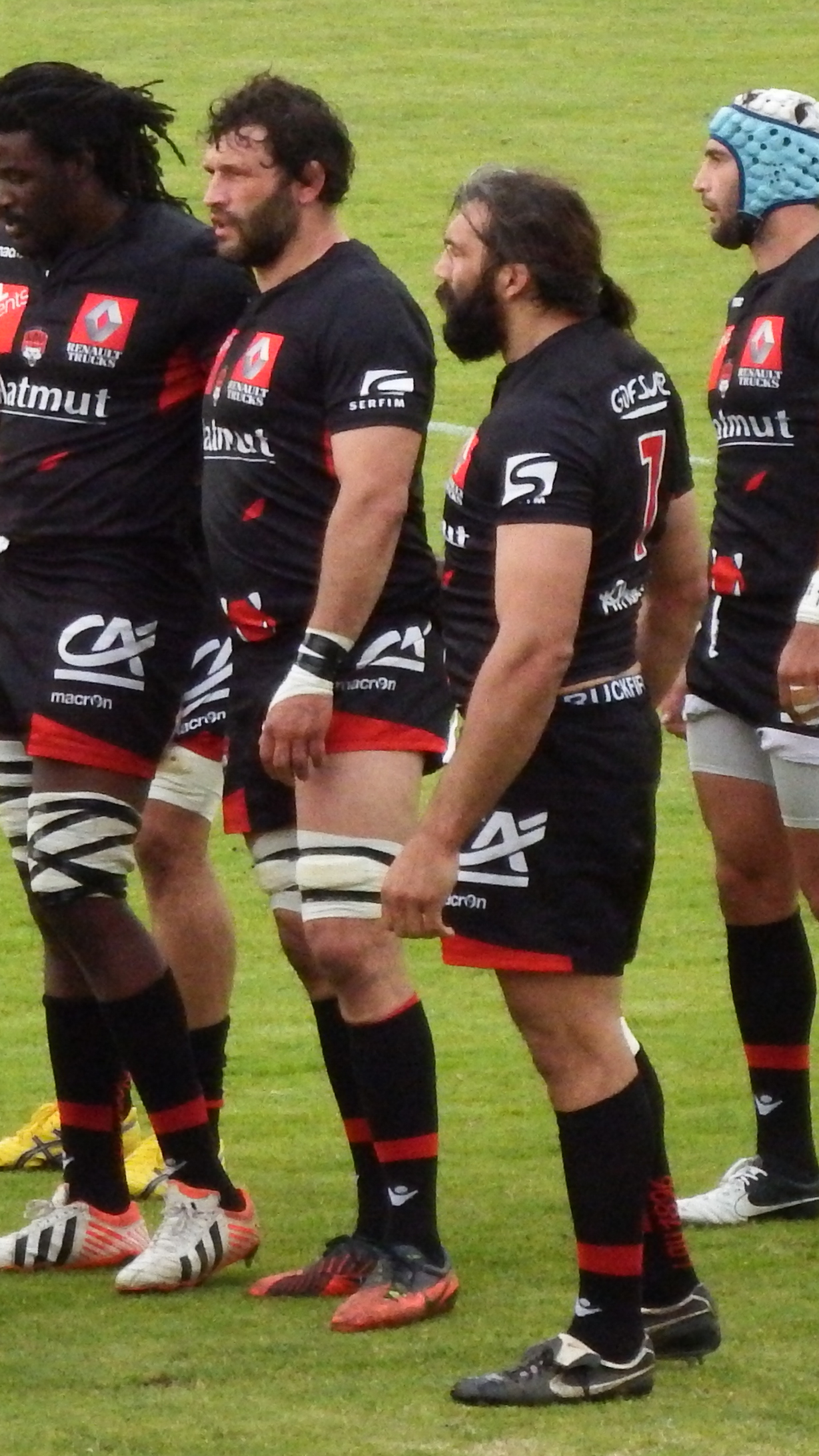 Pro D2 2013-2014 — 12 April 2014, Stade Maurice-Boyau. Match between: US Dax — Lyon OU